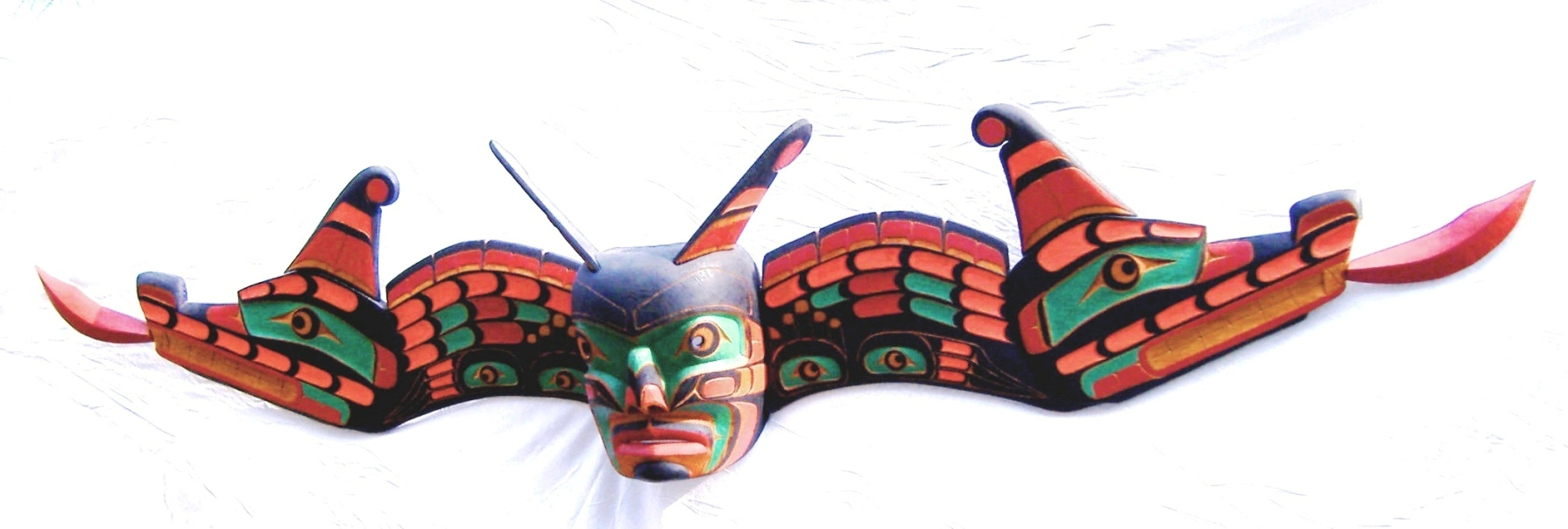 A Kwakwaka'wakw Sisiutl dance mask, made by Oscar Matilpi. Made of cedar wood. Author: kabuto_7 Taken: August 12 2006 Article: Sisiutl